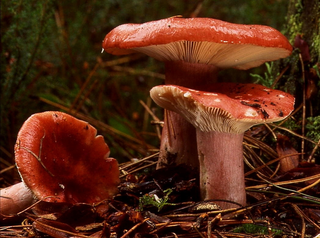 The source of this image is the photographer Frank Gardiner aka Zonda Grattus, who is the sole owner and copyright holder of this photograph and agrees to publish it under the Own Work, Creative Commons Attribution 3.0 License.